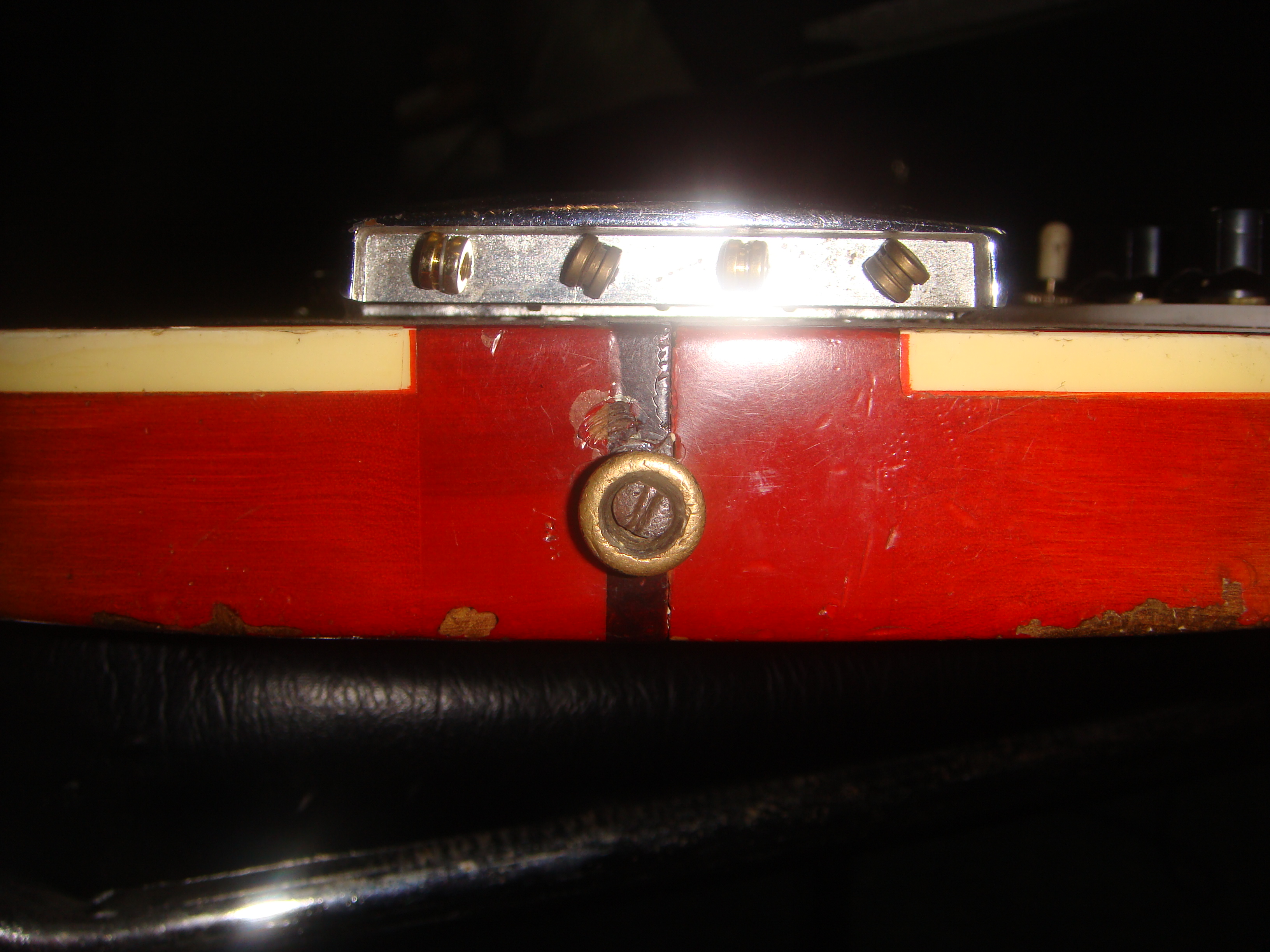 This is a 1978 Shaftesbury bass that i found in one of the studios i jam in. As you can see this bass has been used alot, it has a fair share of scratches, dents and broken stuff.